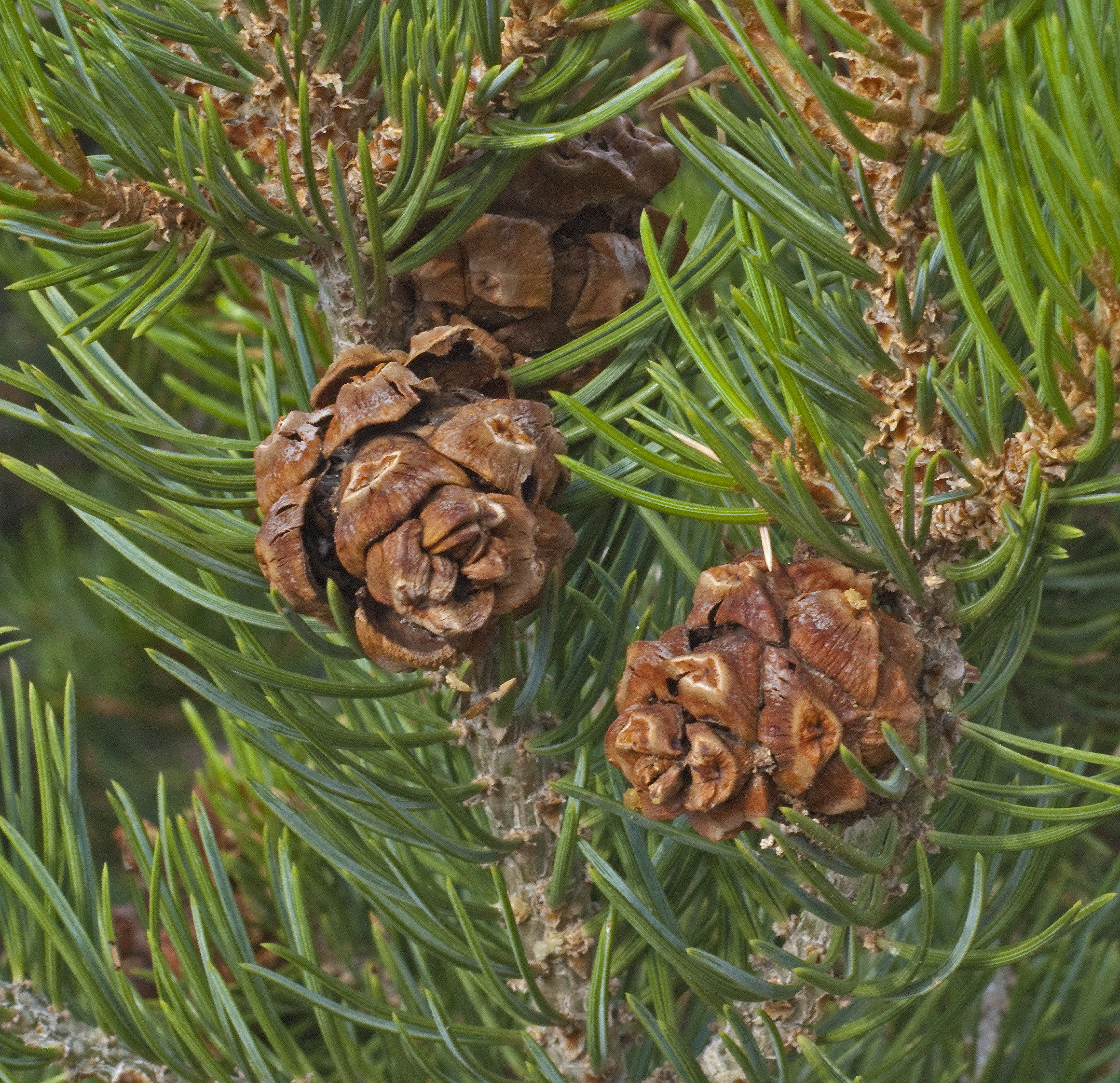 Pinus edulis foliage and cones. Placitas, New Mexico 35°19'N 106°27'W, 1800m altitude.